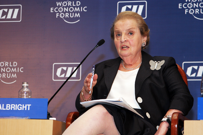 Madeleine Albright, World Economic Forum India summit 2007